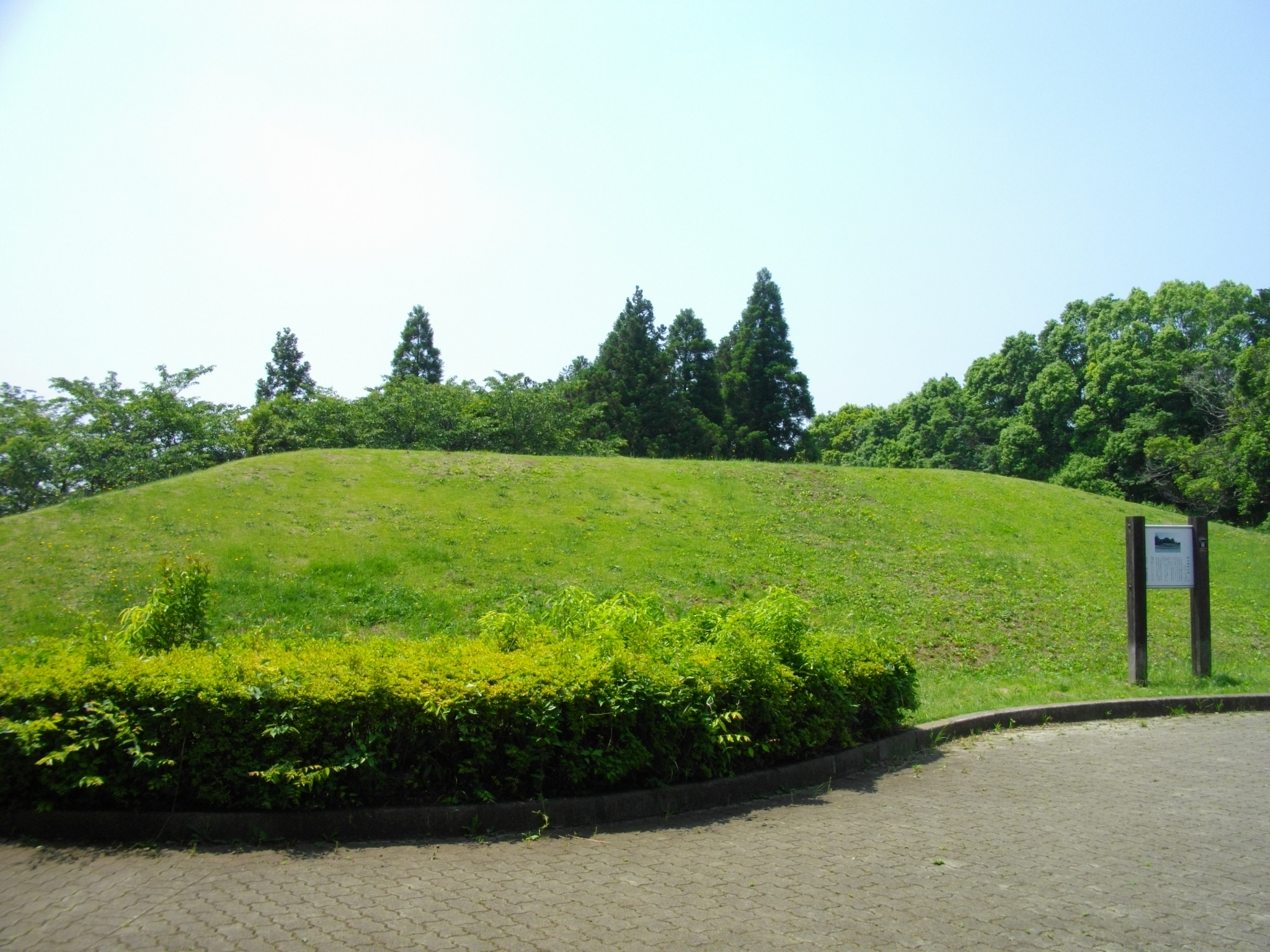 Sumikomorida Kofun